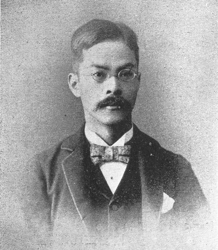 Yasuhiro Ban'ichirō, Chief Secretary of Cabinet